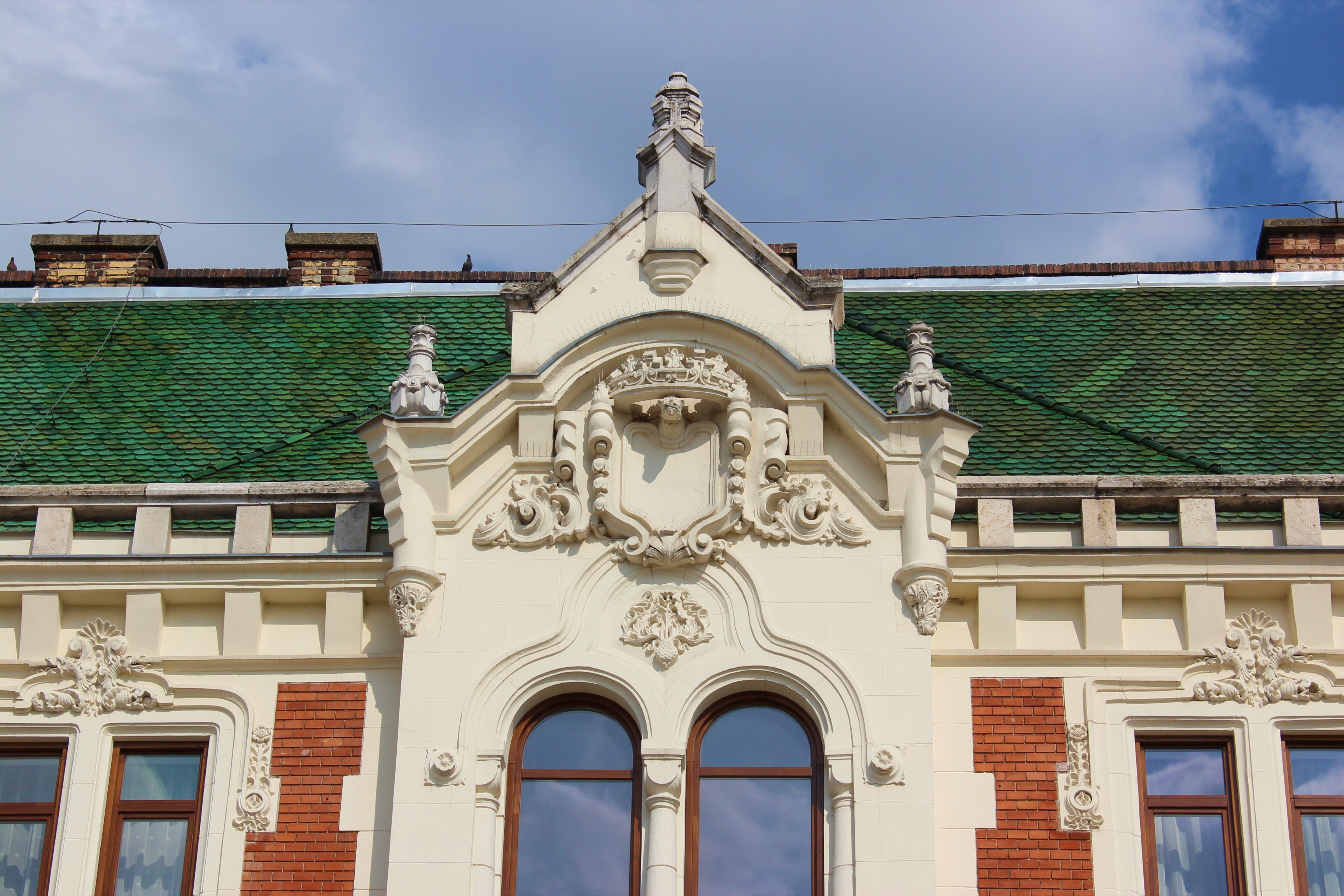 Újpest Town Hall